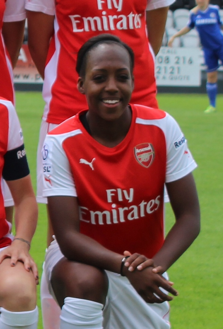 Arsenal Ladies first team photo in the new Puma kit